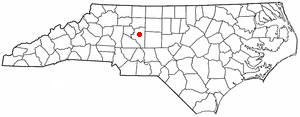 Category:North Carolina Dot Maps